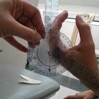 Ensure all angles are correct before moulding orthosis